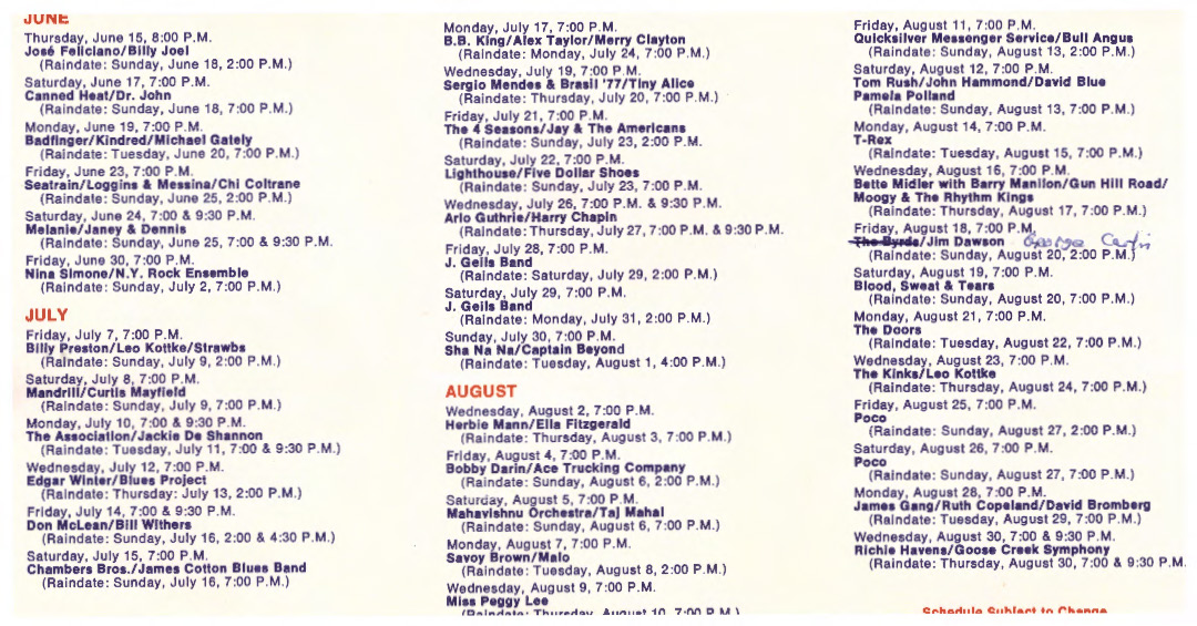 Schaefer Music Festival 1972 Schedule 2 of 2